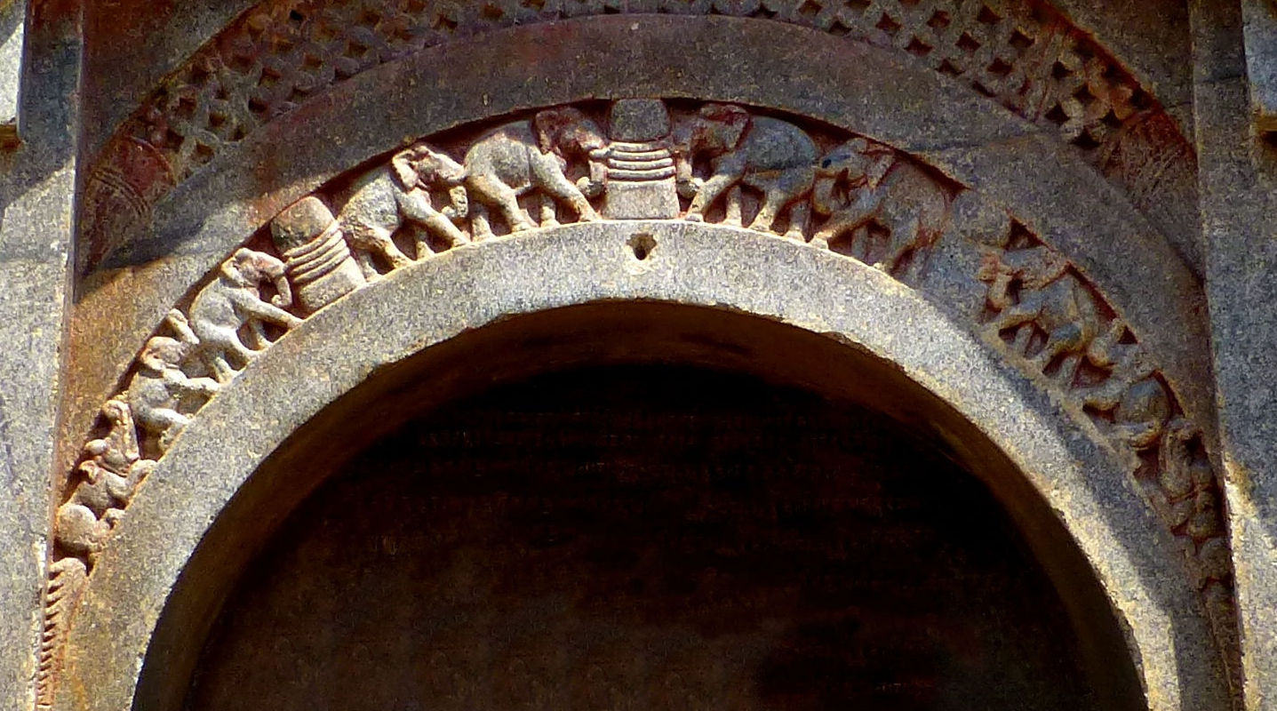 Lomas Rishi relief